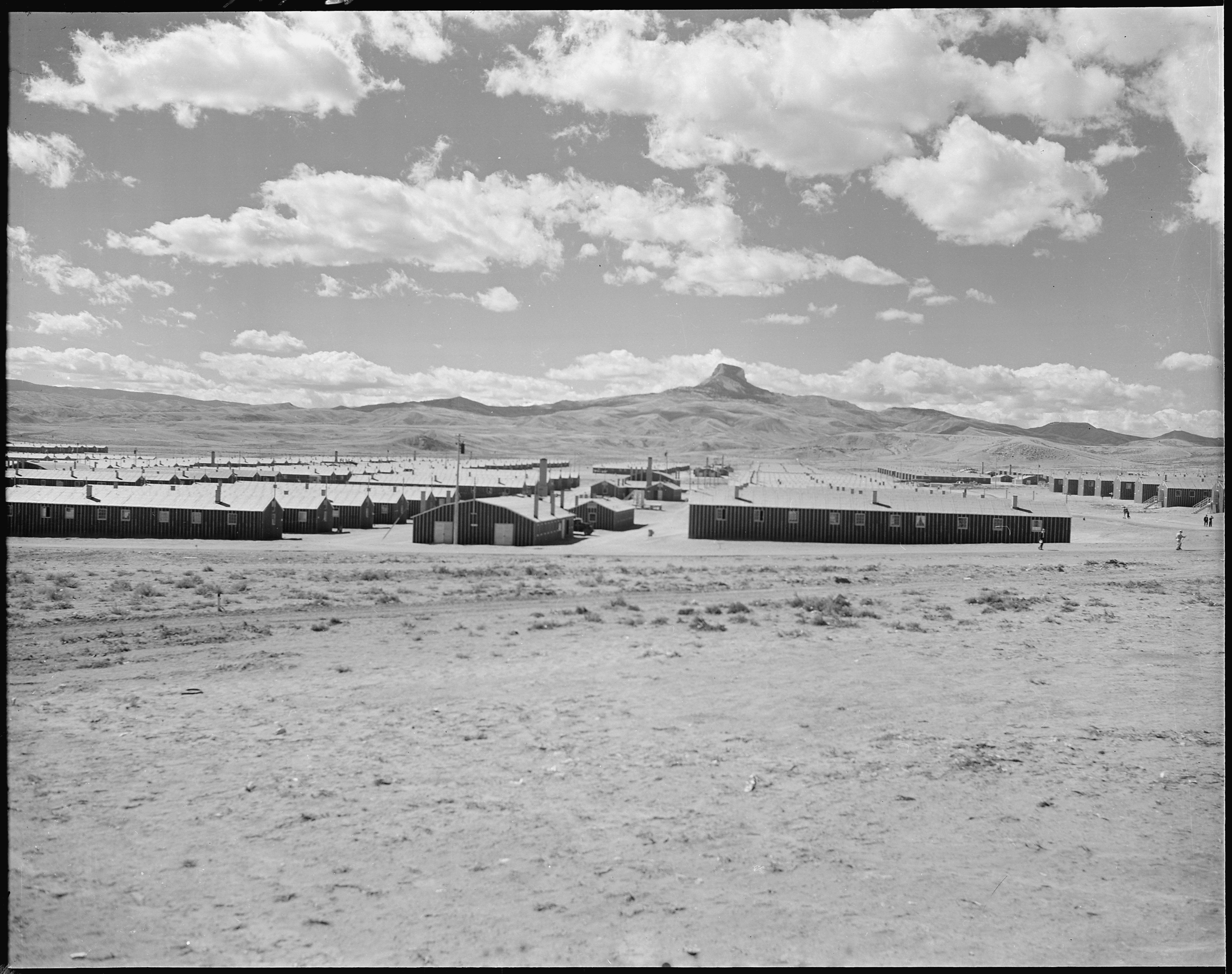 Scope and content: The full caption for this photograph reads: Heart Mountain Relocation Center, Heart Mountain, Wyoming. Looking west over the Heart Mountain Relocation Center with its sentry name sake, Heart Mountain, on the horizon.